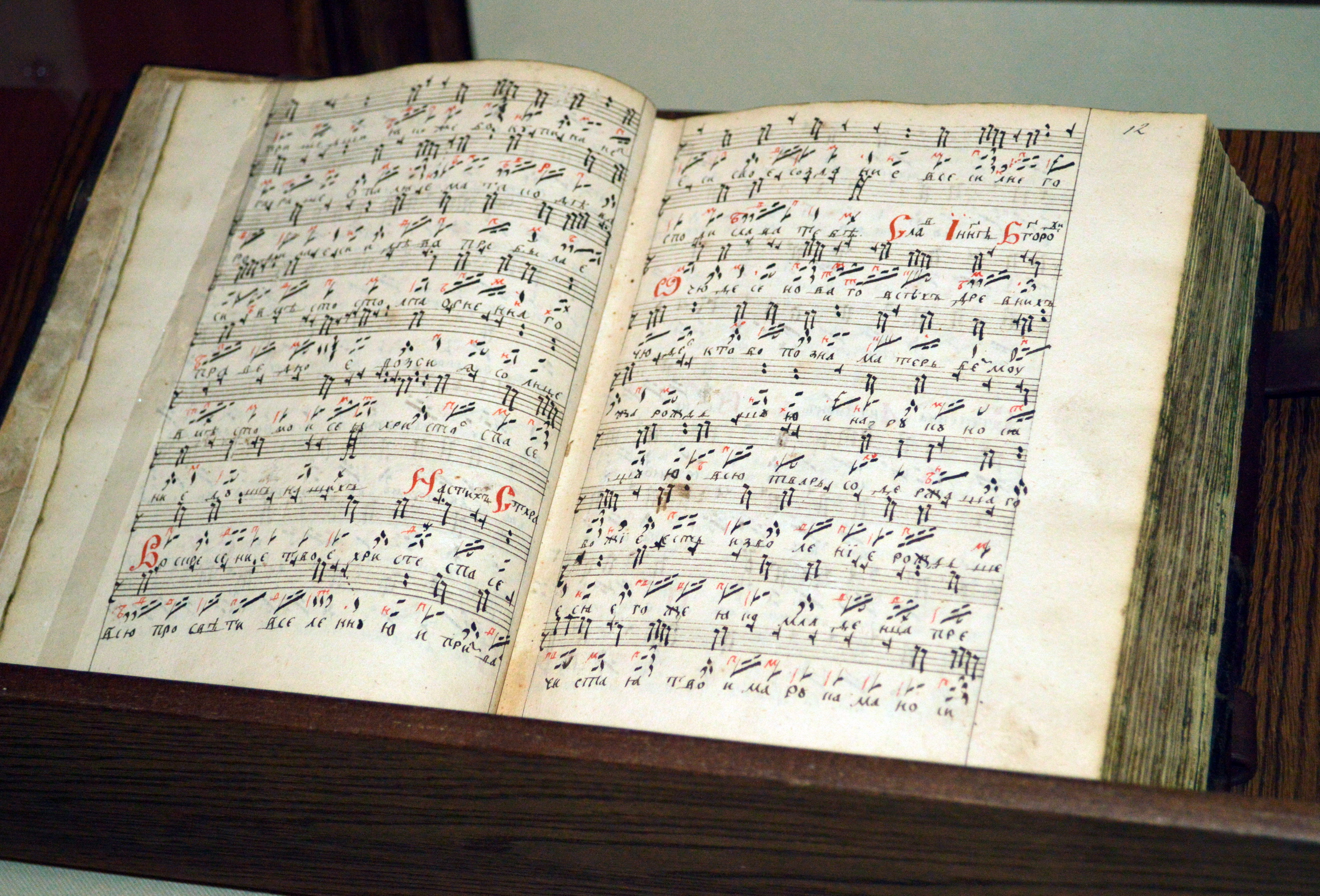 Musical book, second half of 17 c. Znamenny and modern notation.